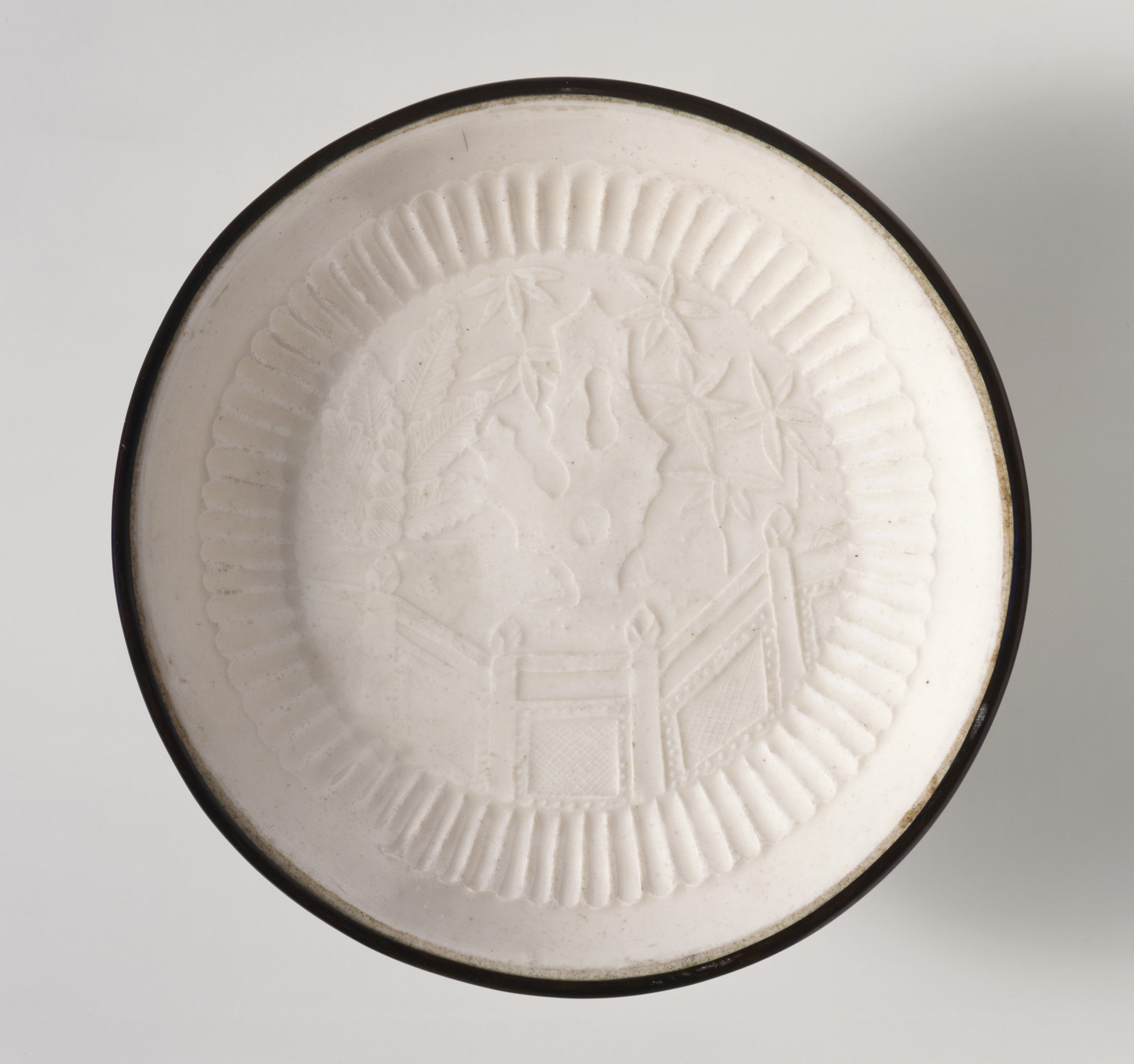 China, Hebei Province, Quyang County, late Jin dynasty or early Yuan dynasty, about 1200-1300 Furnishings; Serviceware Ding ware, molded stoneware with impressed decoration, transparent glaze, and banded metal rim Gift of Nasli M. Heeramaneck (M.73.48.106) Chinese Art